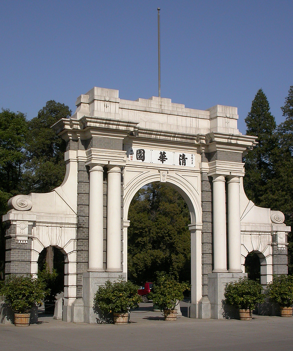 2nd (or formal) gate of Tsinghua University, Beijing.